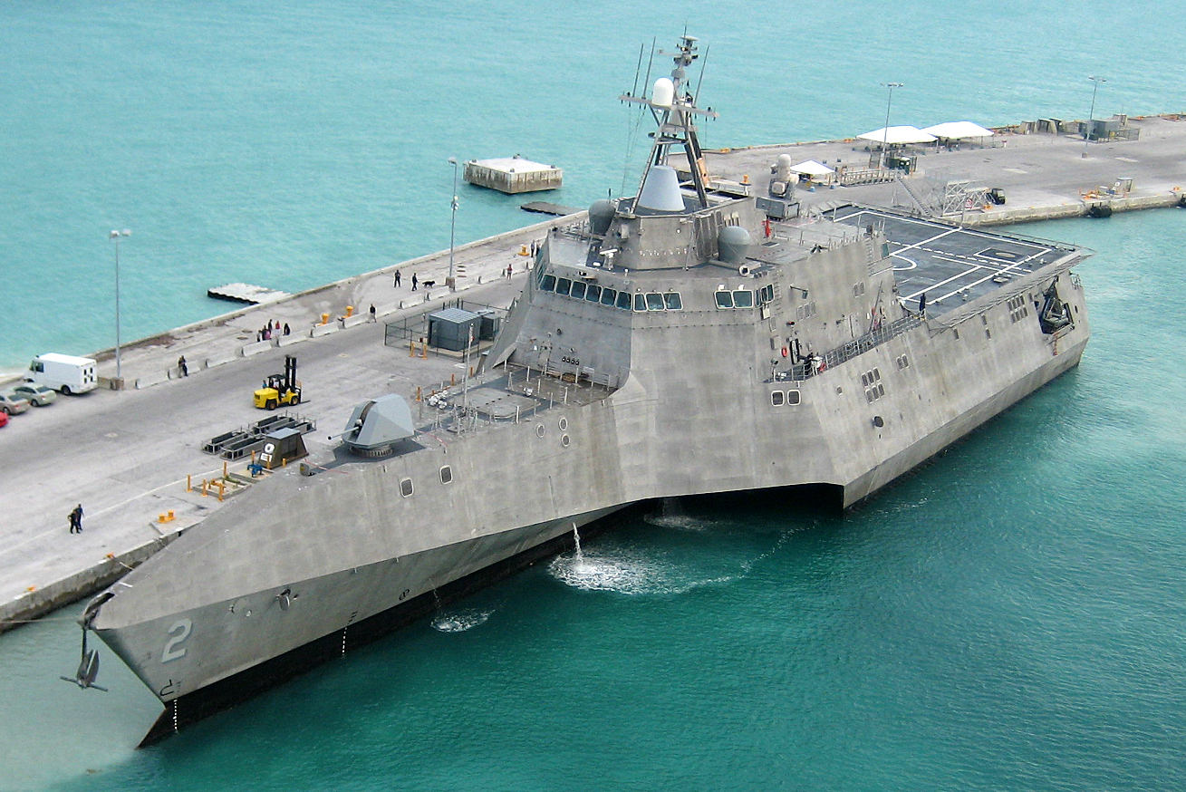 The U.S. Navy littoral combat ship USS Independence (LCS-2) arrives at Mole Pier at Naval Air Station Key West, Florida (USA), on 29 March 2010. Independence was on the way to Norfolk, Virginia (USA), for commencement of initial testing and evaluation of the aluminum vessel before sailing to its homeport in San Diego, California (USA).